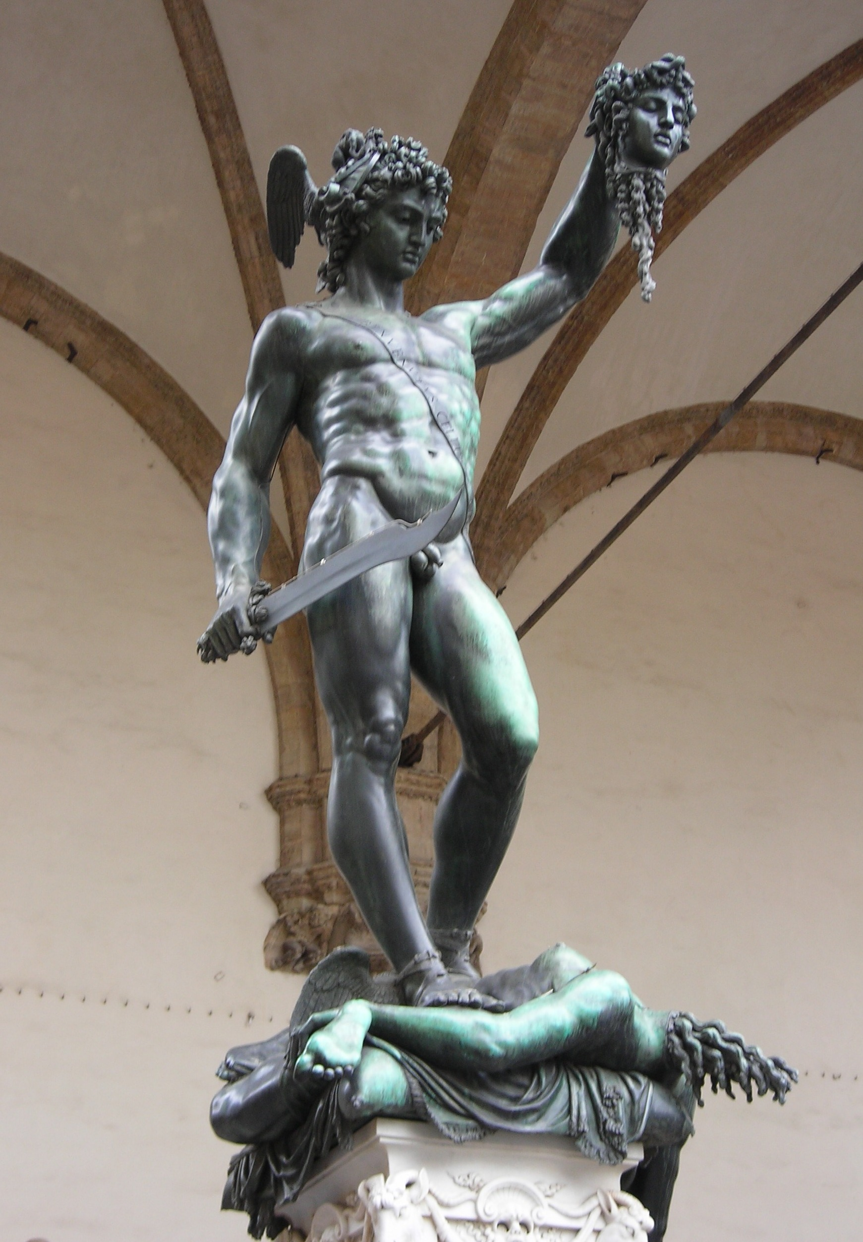 Benvenuto Cellini's bronze sculpture "Perseus" in Florence